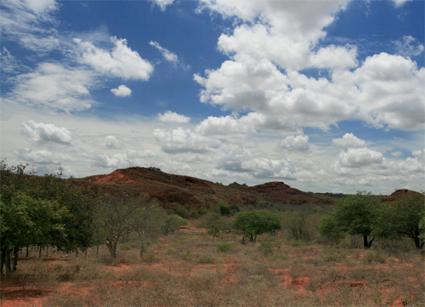 Sandstone cliffs in Bahia, Brazil. The rare parrot, Lear's Macaw (Anodorhynchus leari), nests in these cliffs.